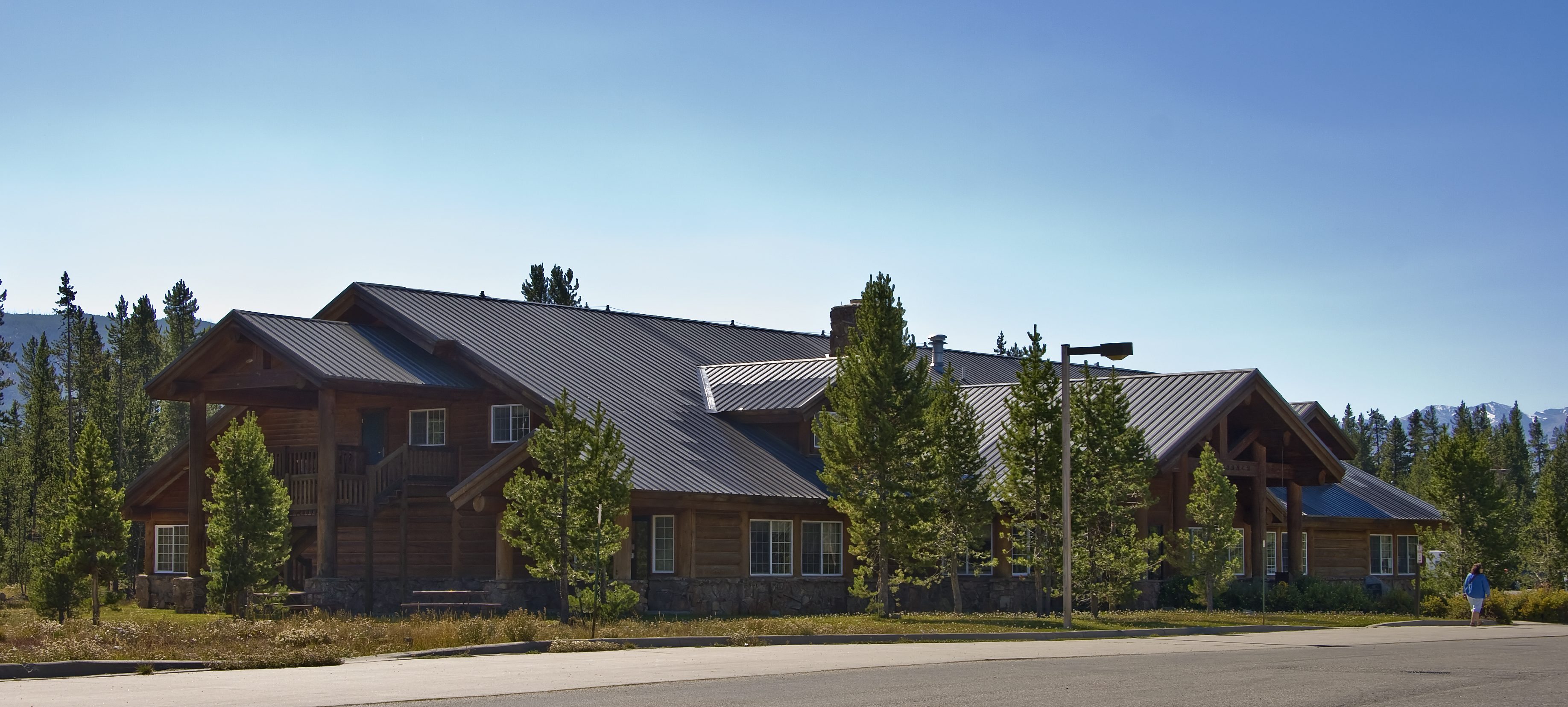 Flagg Ranch Main Lodge between Yellowstone and Grand Teton National Parks, Wyoming, USA